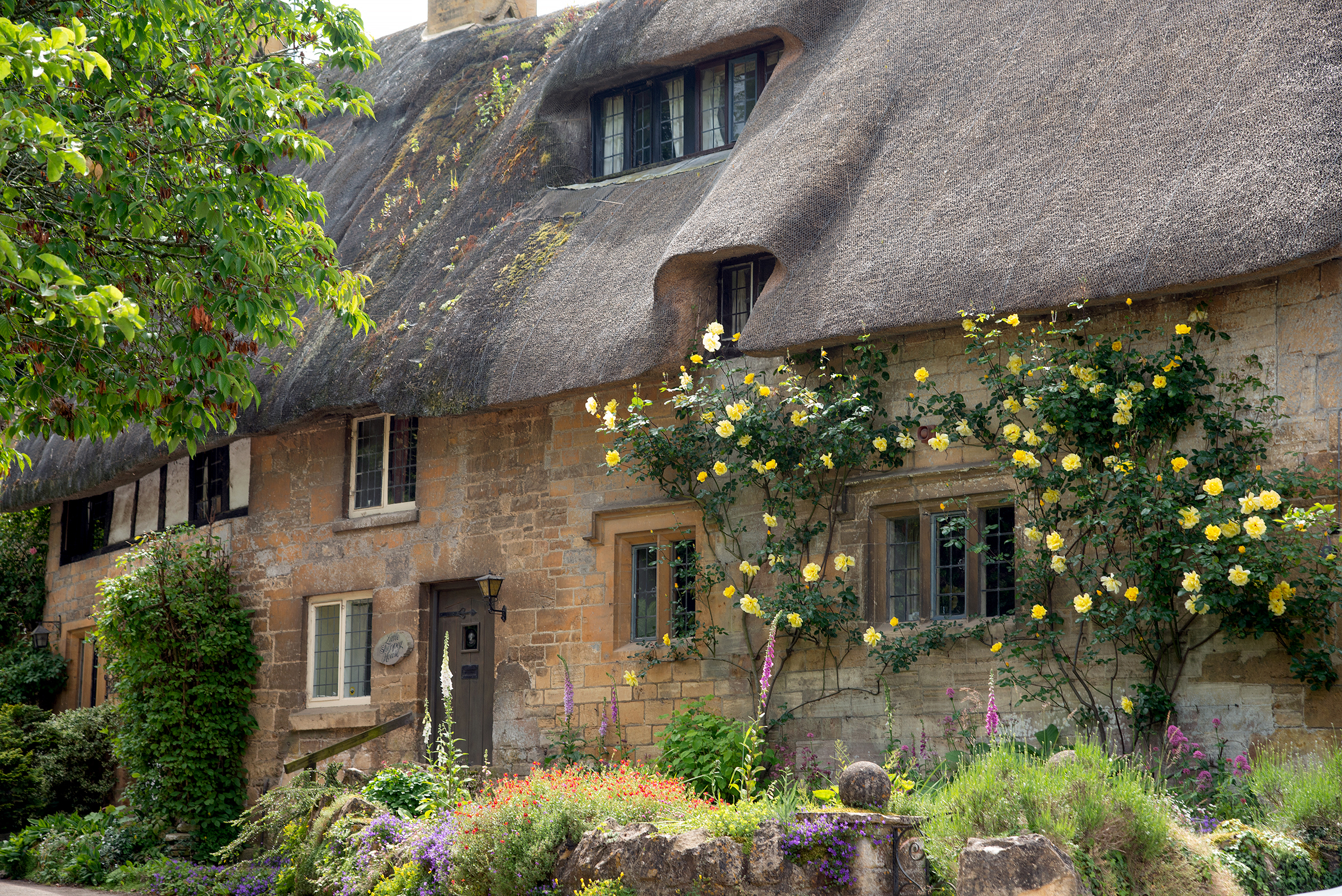 Sheppey Corner Cottage, with thatched roof in Stanton, a village in the Cotswolds, England